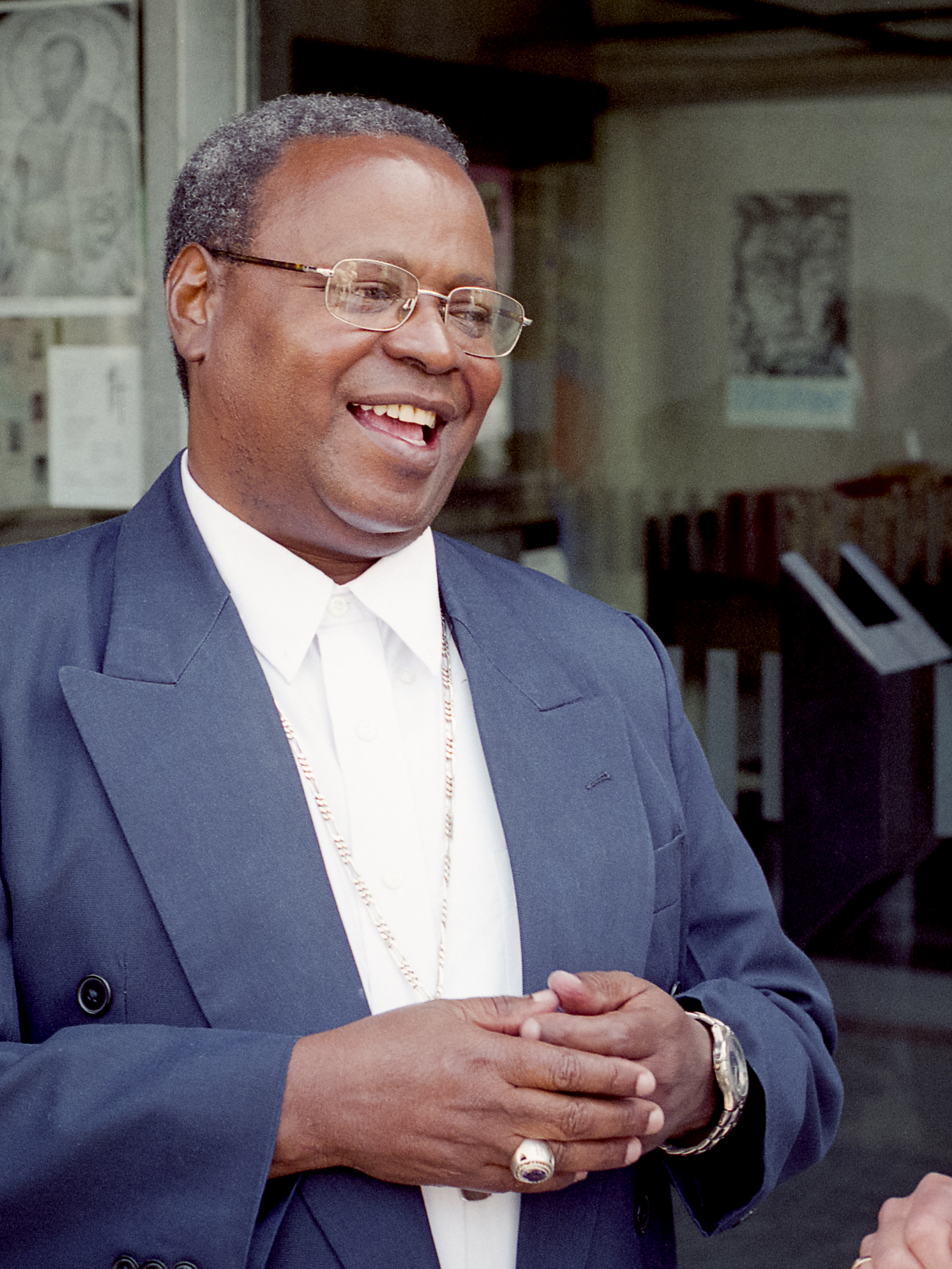 Boniface Lele, Archbishop of Mombasa, Kenia